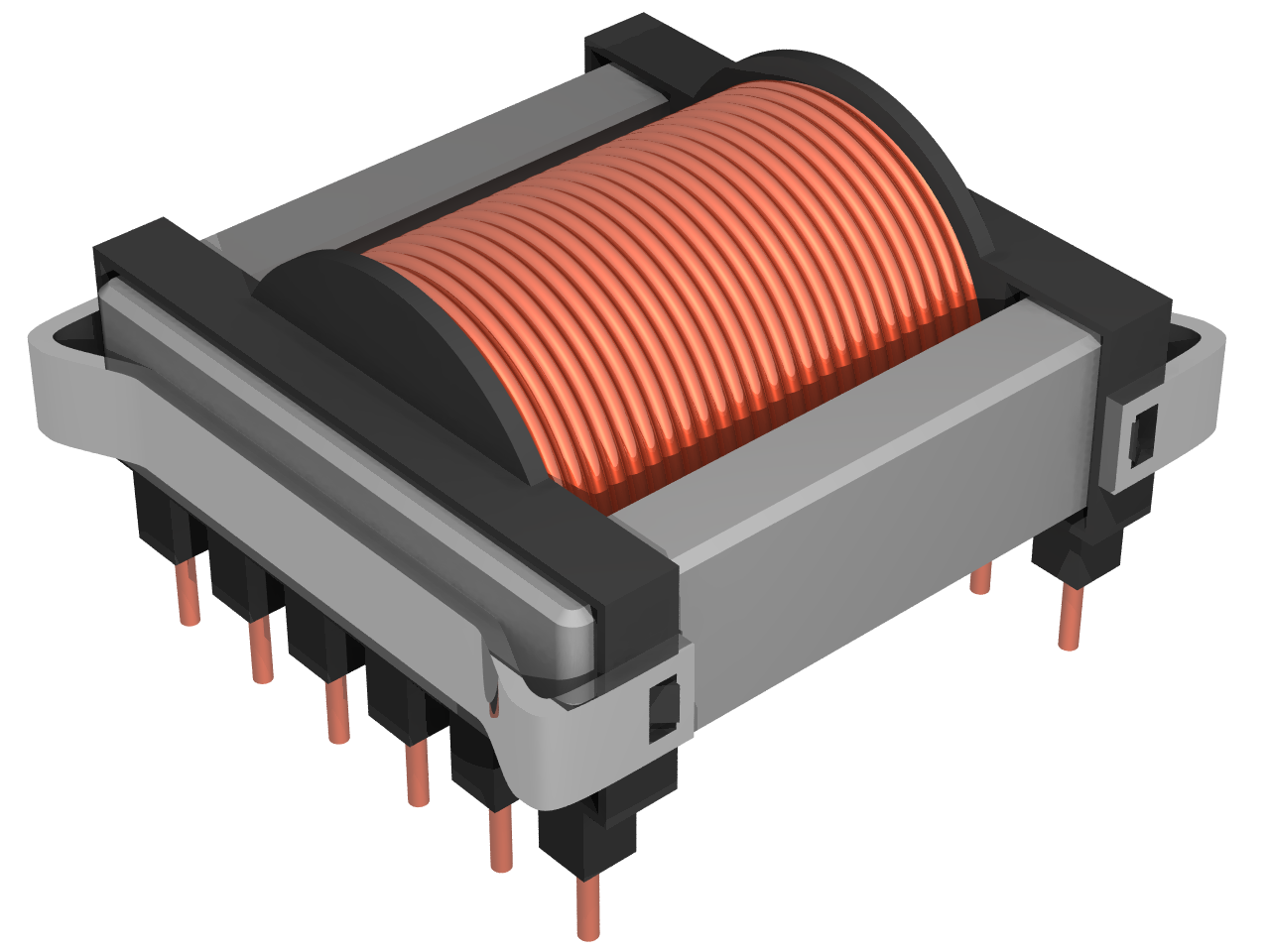 ER core-based inductor, exploded view available on Image:ER_core_assembly_exploded.png